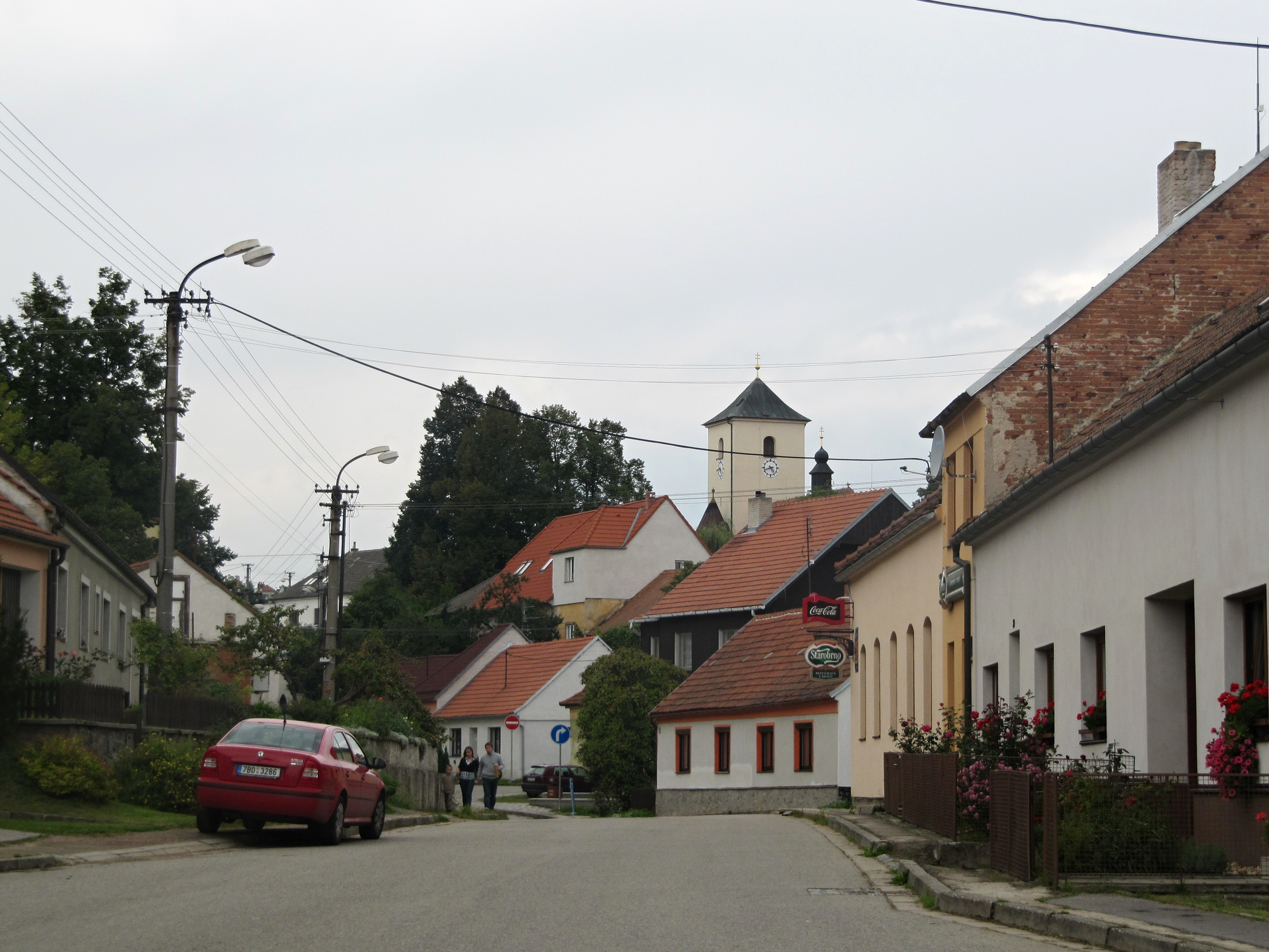 Zbraslav in Brno-Country District, Czech Republic.Masarykova street.